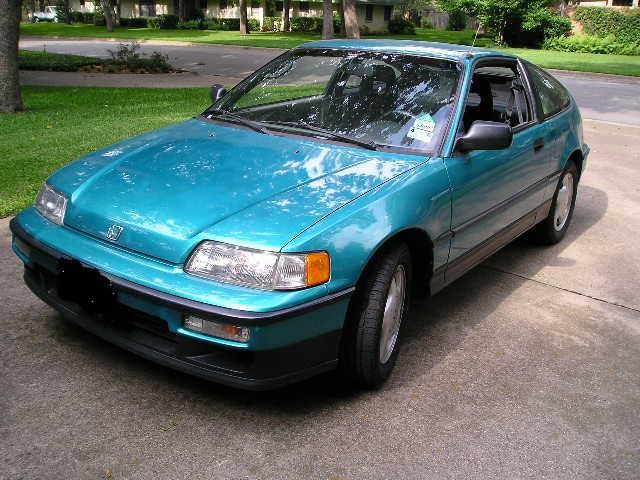 Charles Dewar 1991 CRX Si